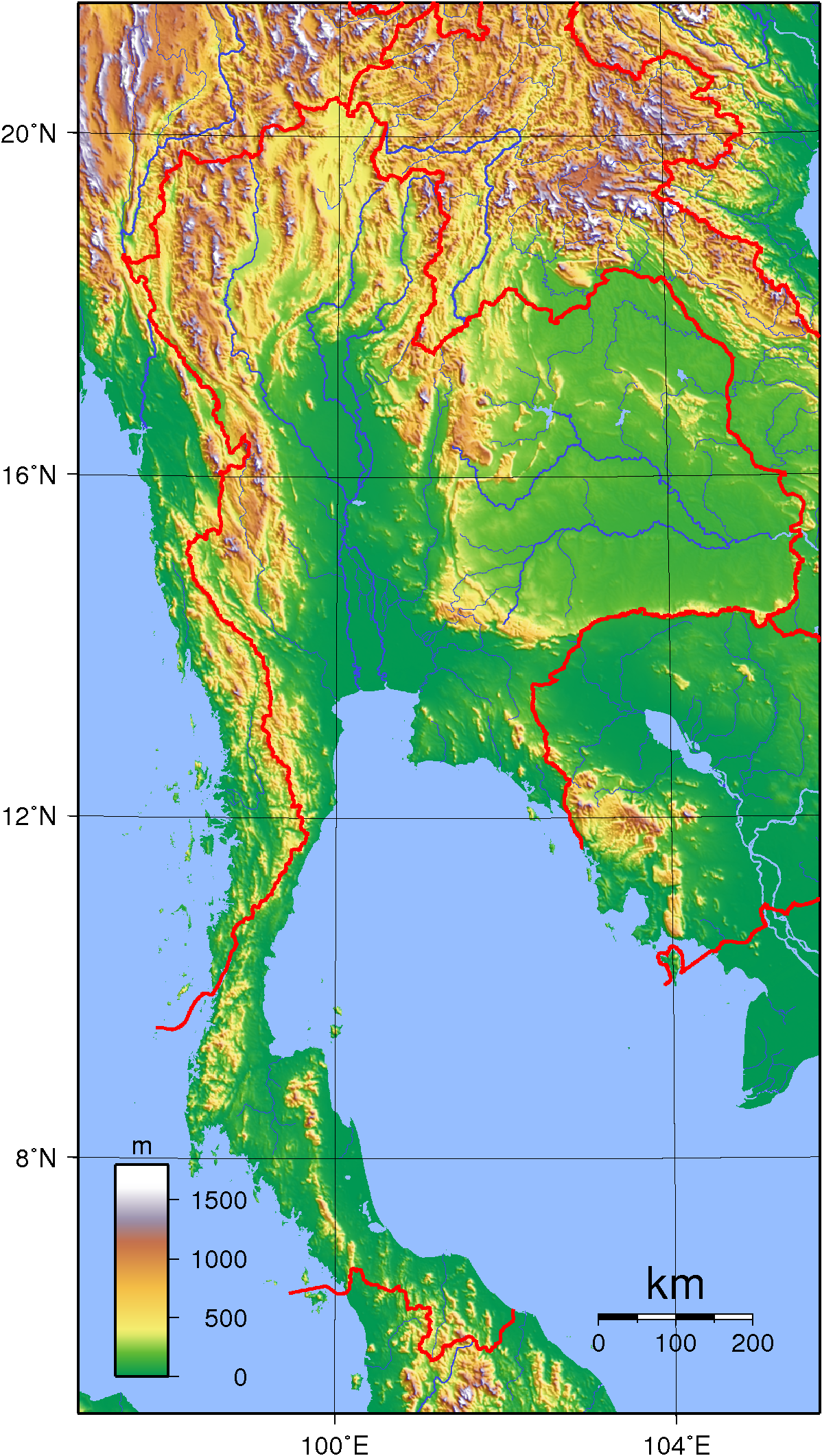 Topographic map of Thailand. Created with GMT from publicly released GLOBE data.[1]